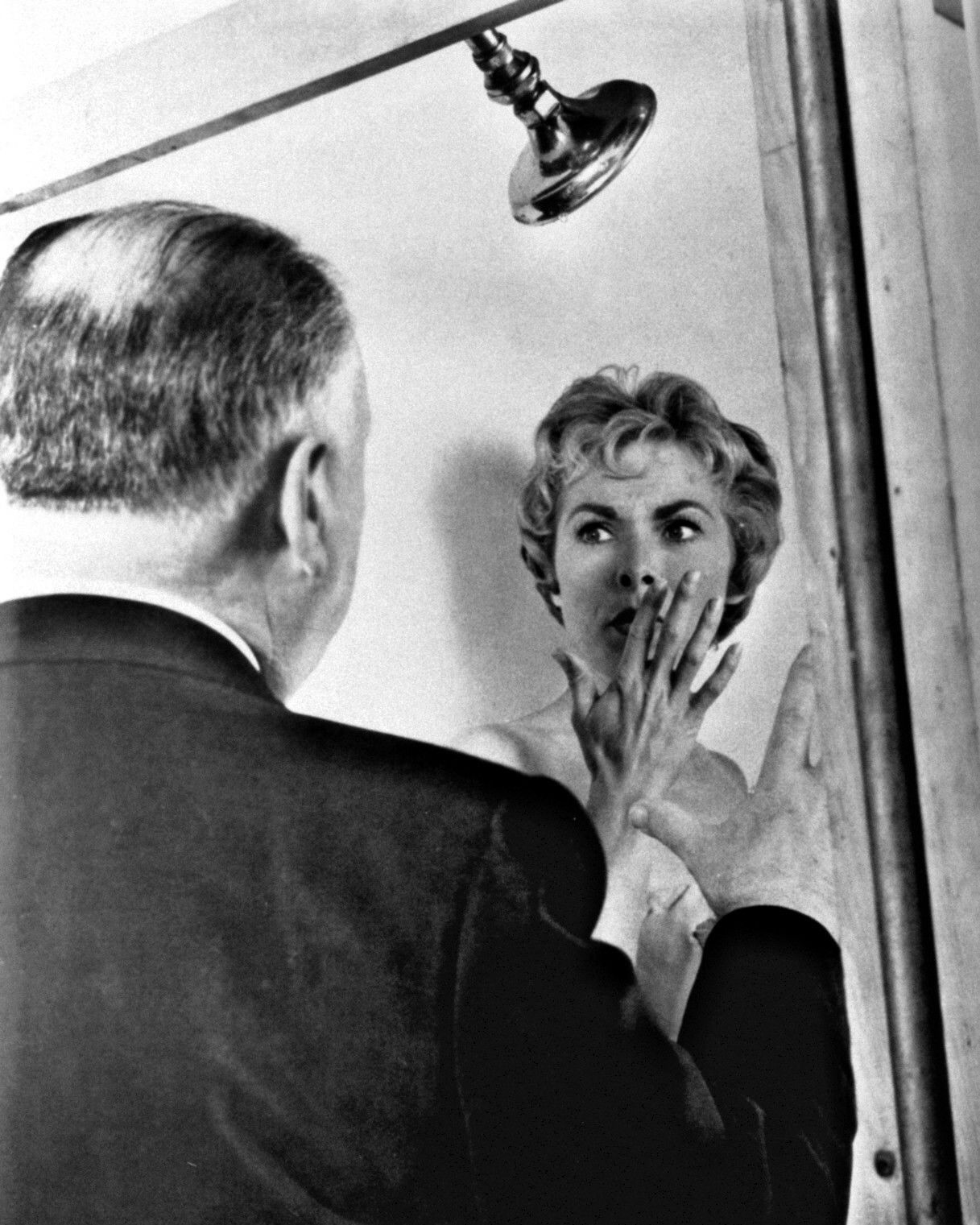 Photo of Alfred Hitchcock & Janet Leigh from the 1960 film Psycho